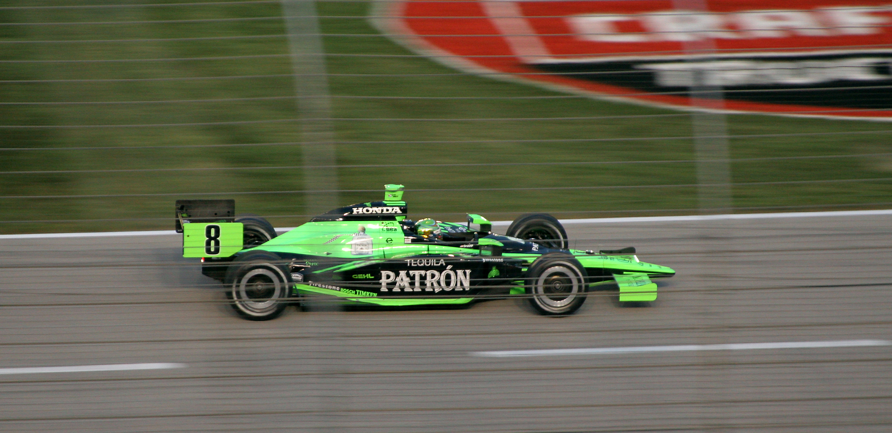 Indy Racing League driver Scott Sharp racing at the Bombardier Learjet 550K at Texas Motor Speedway